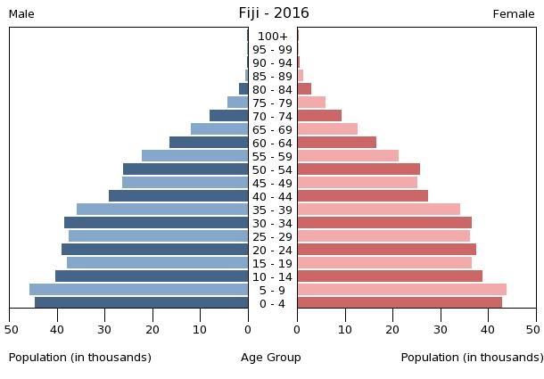 The population pyramid of Fiji illustrates the age and sex structure of population and may provide insights about political and social stability, as well as economic development. The population is distributed along the horizontal axis, with males shown on the left and females on the right. The male and female populations are broken down into 5-year age groups represented as horizontal bars along the vertical axis, with the youngest age groups at the bottom and the oldest at the top. The shape of the population pyramid gradually evolves over time based on fertility, mortality, and international migration trends.